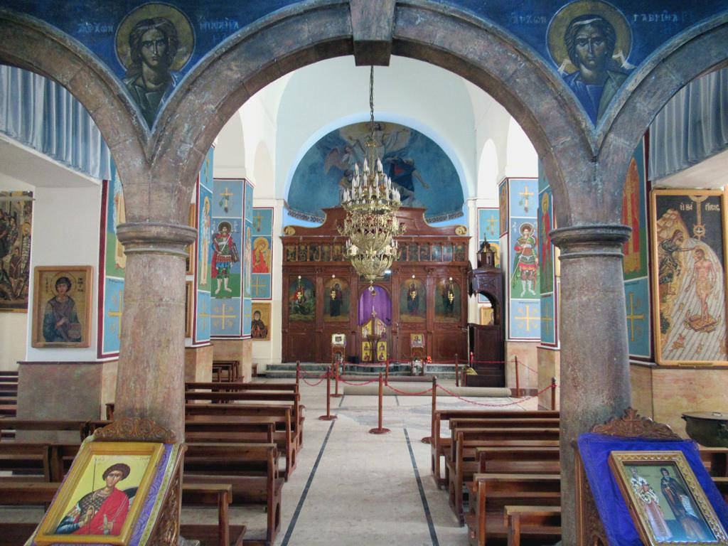 The 19th century St. George's Greek Orthodox Church at Madaba, Jordan, houses the famous Byzantine floor mosaic of Palestine dating from 560 AD.